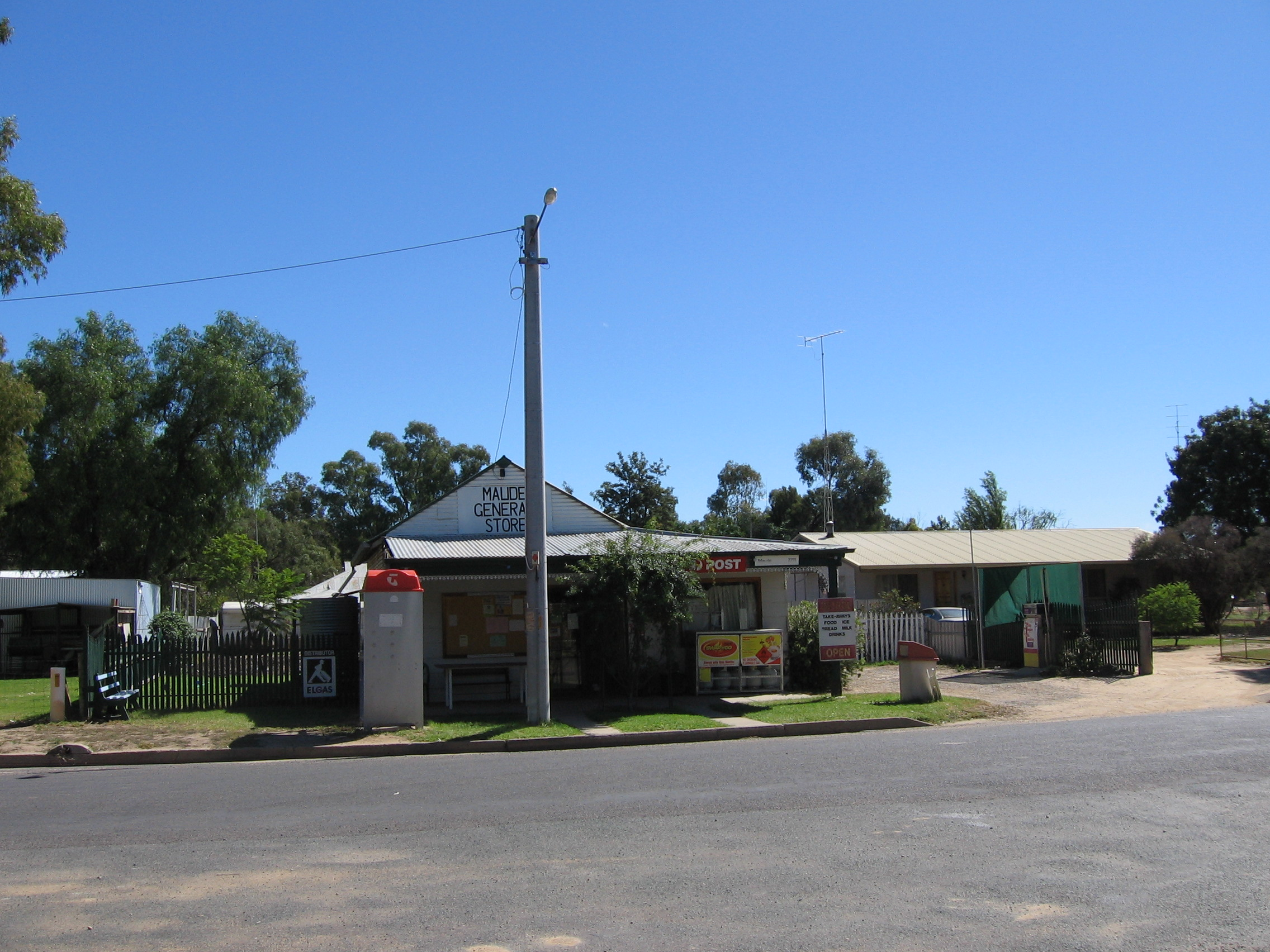 Post Office and General Store at Maude, New South Wales